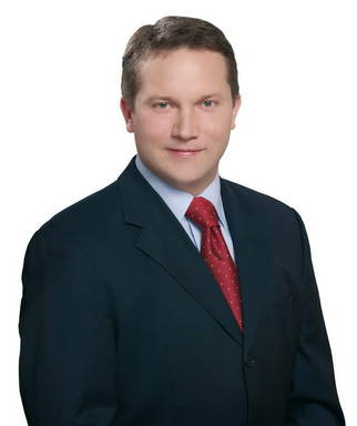 István Ujhelyi